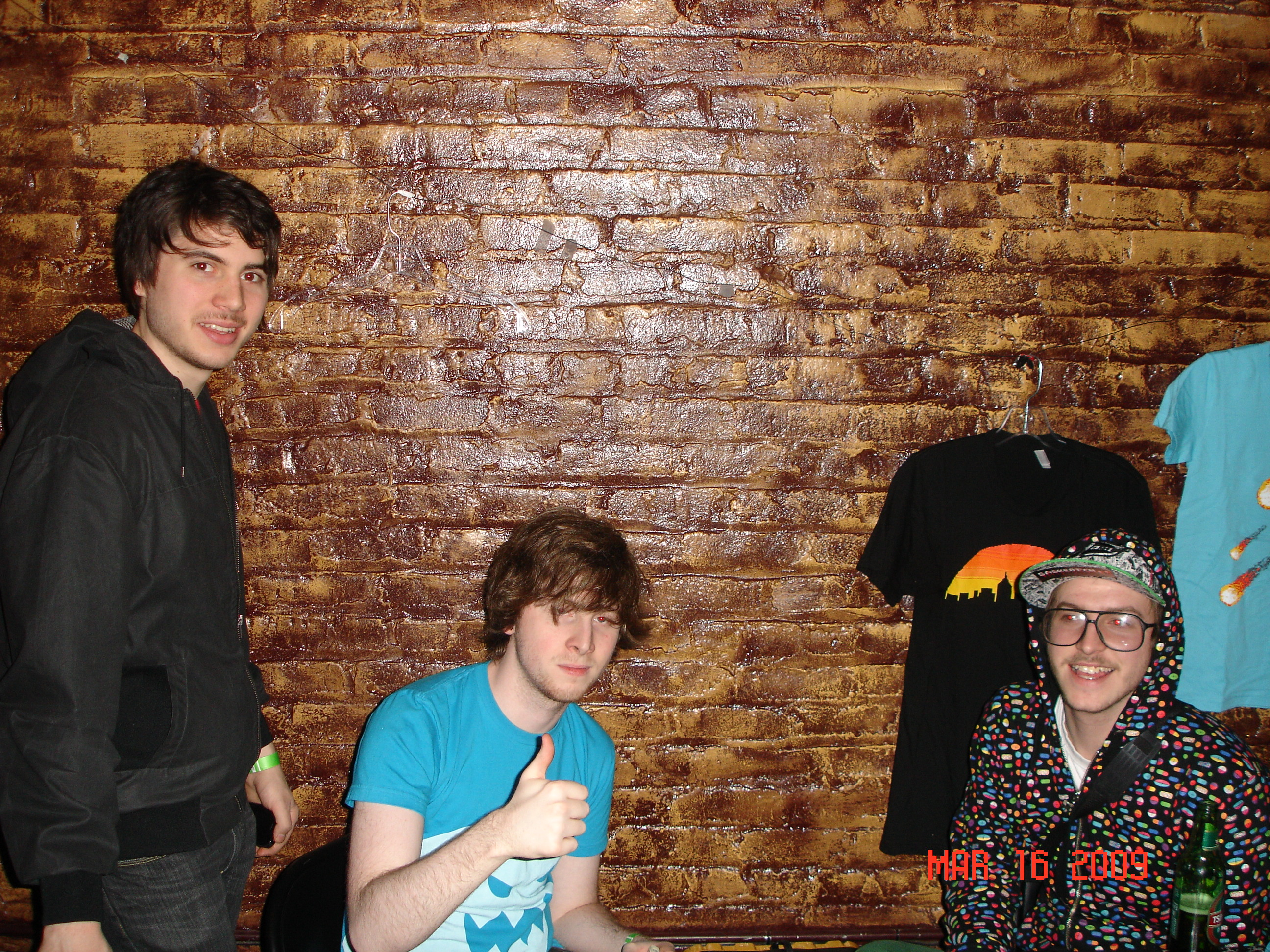 James DeVito, Peter Berkman, and Ary Warnaar of Anamanaguchi posing as a group at the Bell House, where they performed that night, in Brooklyn, NY on March 16, 2009